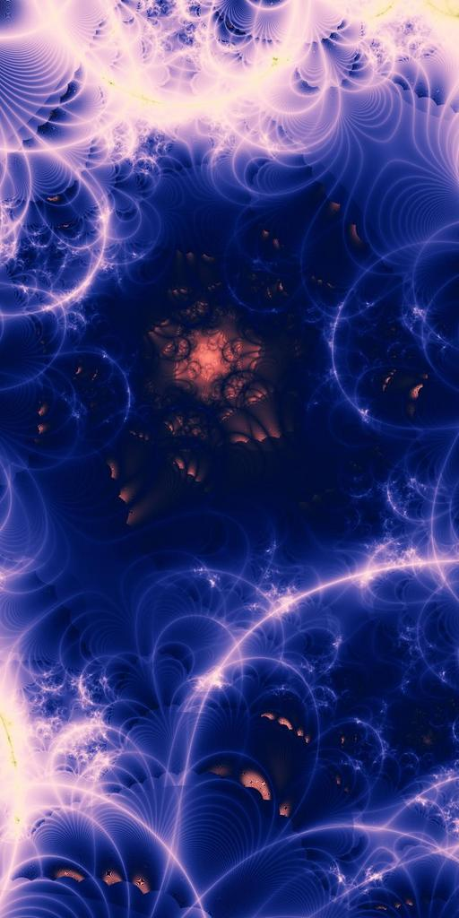 Image generated by Sterling Fractal.